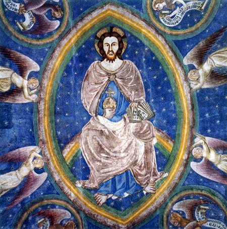 14th century fresco showing the Maiestas Domini within the St Johann im Dorf chapel in Bozen-Bolzano, South Tyrol